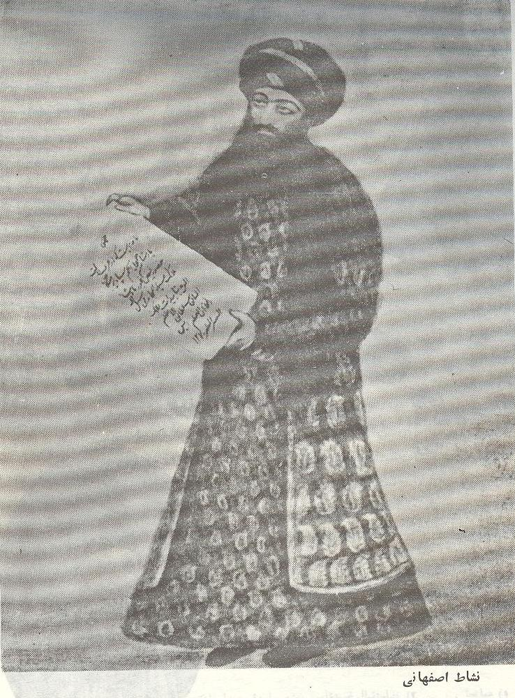 Persian (Iranian) poet and politician and the first Persian minister of foreign affairs